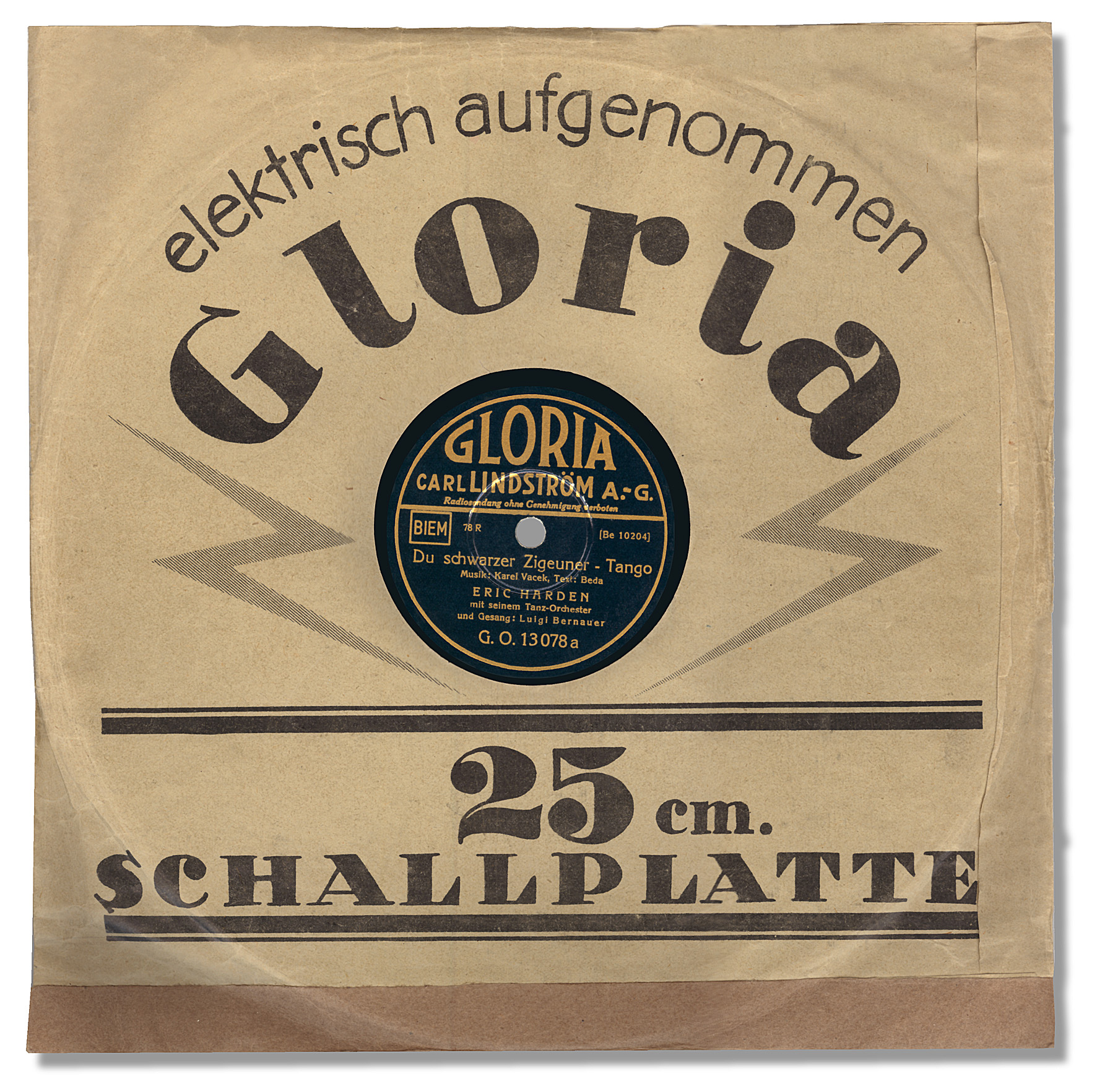 Gloria G.O. 13078a, Carl Lindström AG, Du schwarzer Zigeuner, German Tango, 1933